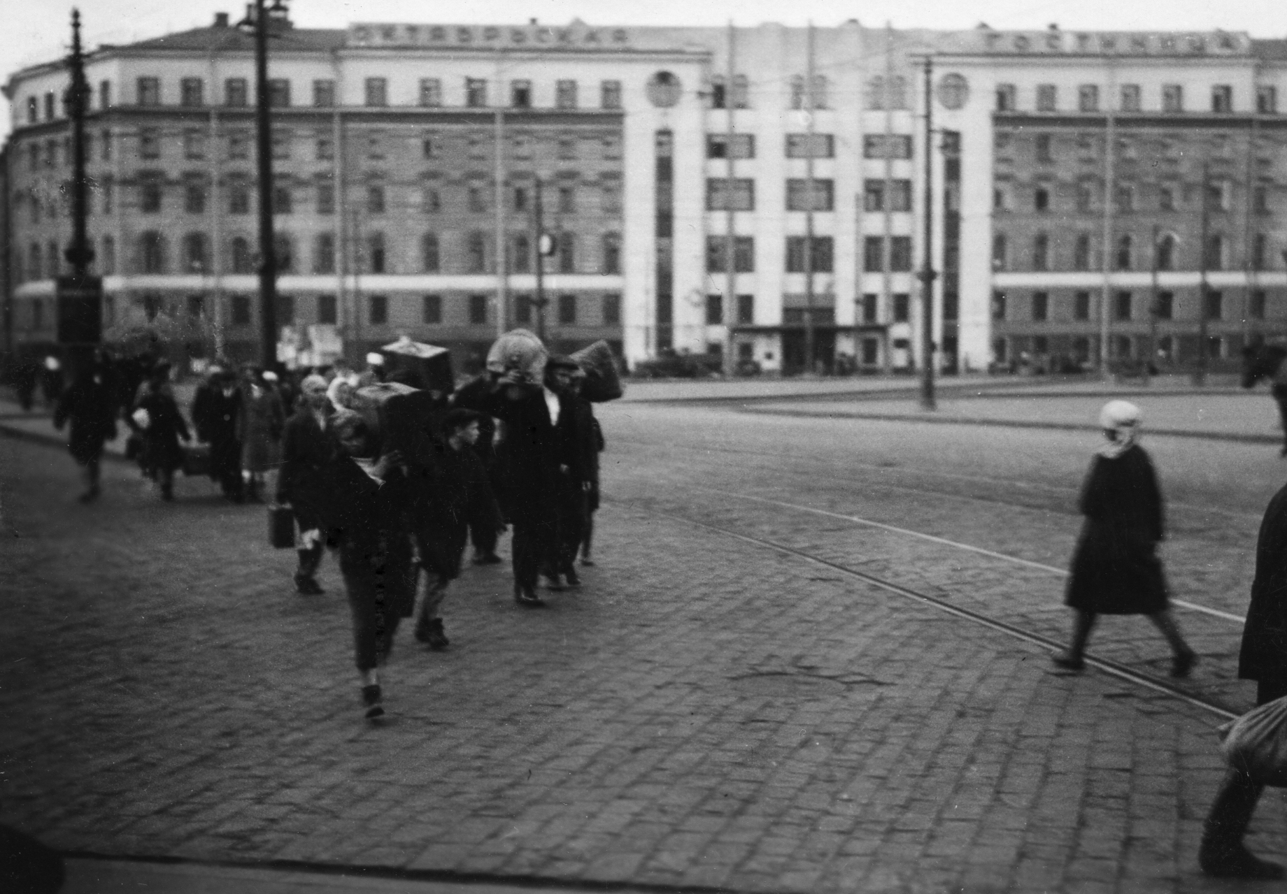 1935. Leningrad, Oktyabrskaya Hotel with recently added modernist facade (now reverted to 19th century style)